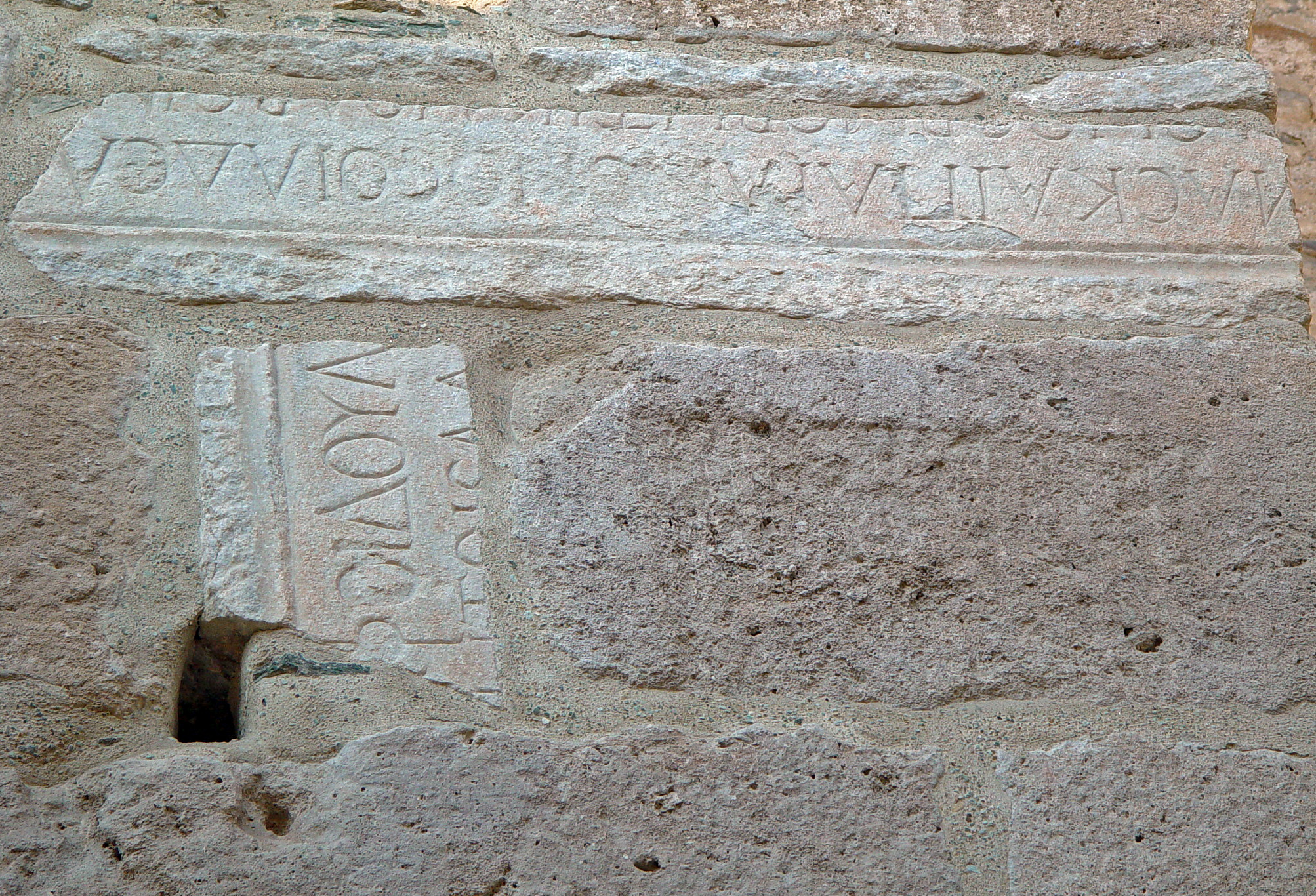 Heptapyrgion fortress, an Ottoman reconstruction of a Byzantine fort on the Thessaloniki acropolis (1431). Detail of the masonry with spolia — in this case, Roman inscriptions. Photograph taken by Marsyas 09:58, 28 February 2006 (UTC)